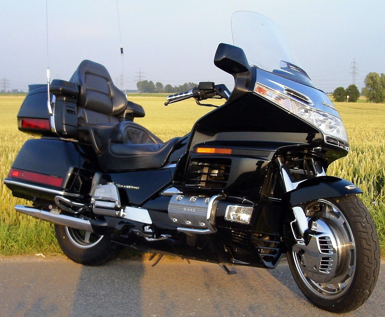 Honda Goldwing GL 1500 SE-US SC22 1998 wingo dingwing